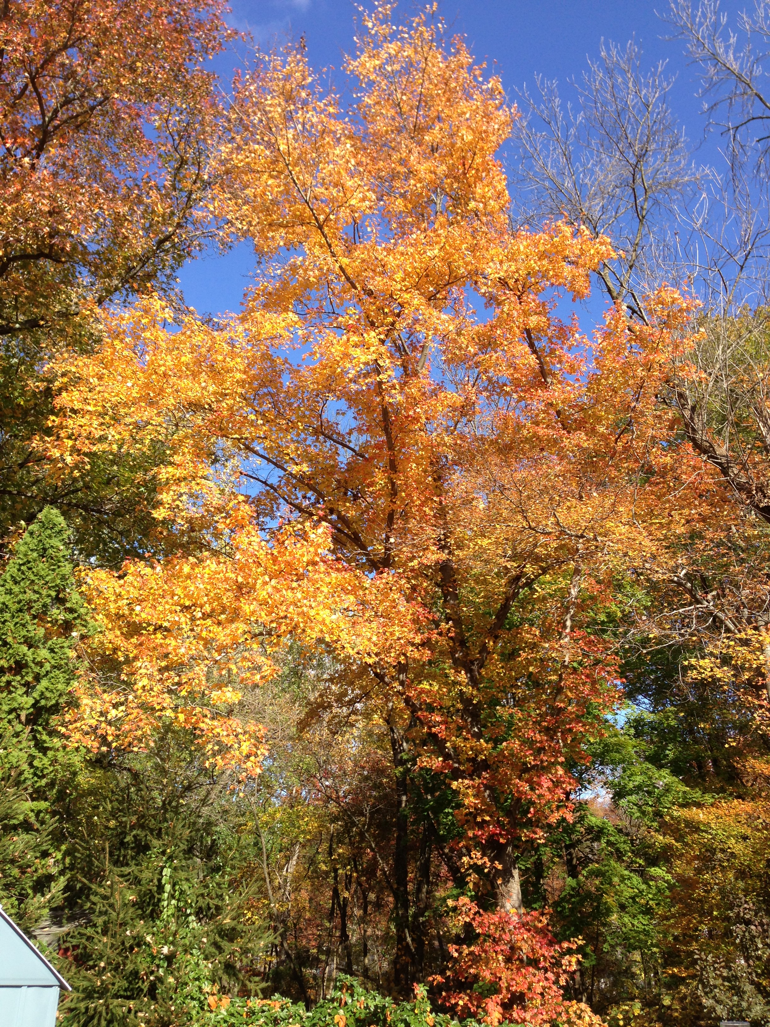 Red Maple during autumn along Terrace Boulevard in Ewing, New Jersey